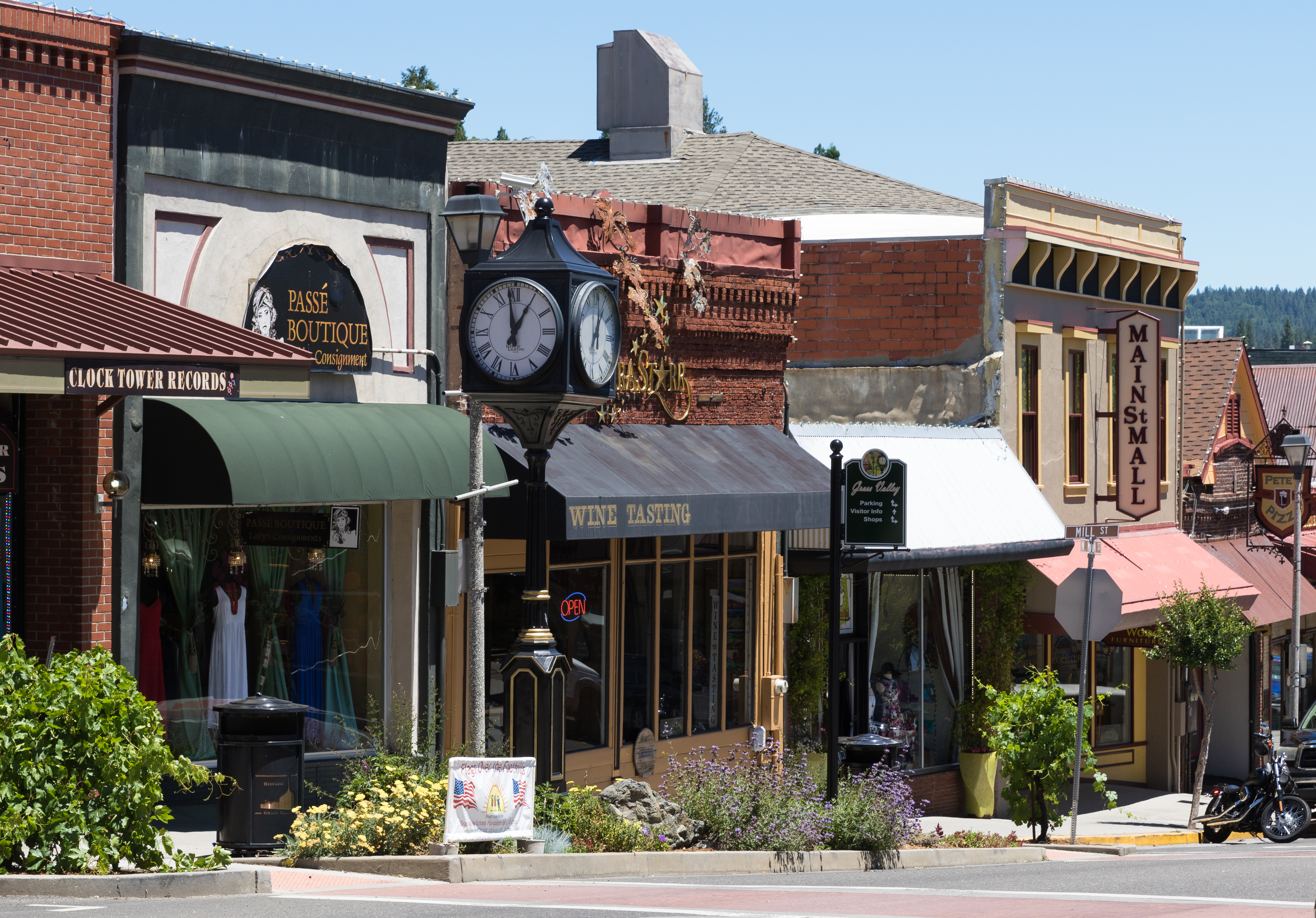 Houses on Main Street, Grass Valley, California